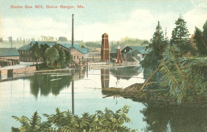 Sterns Lumber Company, East Hampden, Maine. The mill became one of the largest on the Penobscot River during the lumber boom of the 1850s. Rebuilt in 1952, the business still exists.